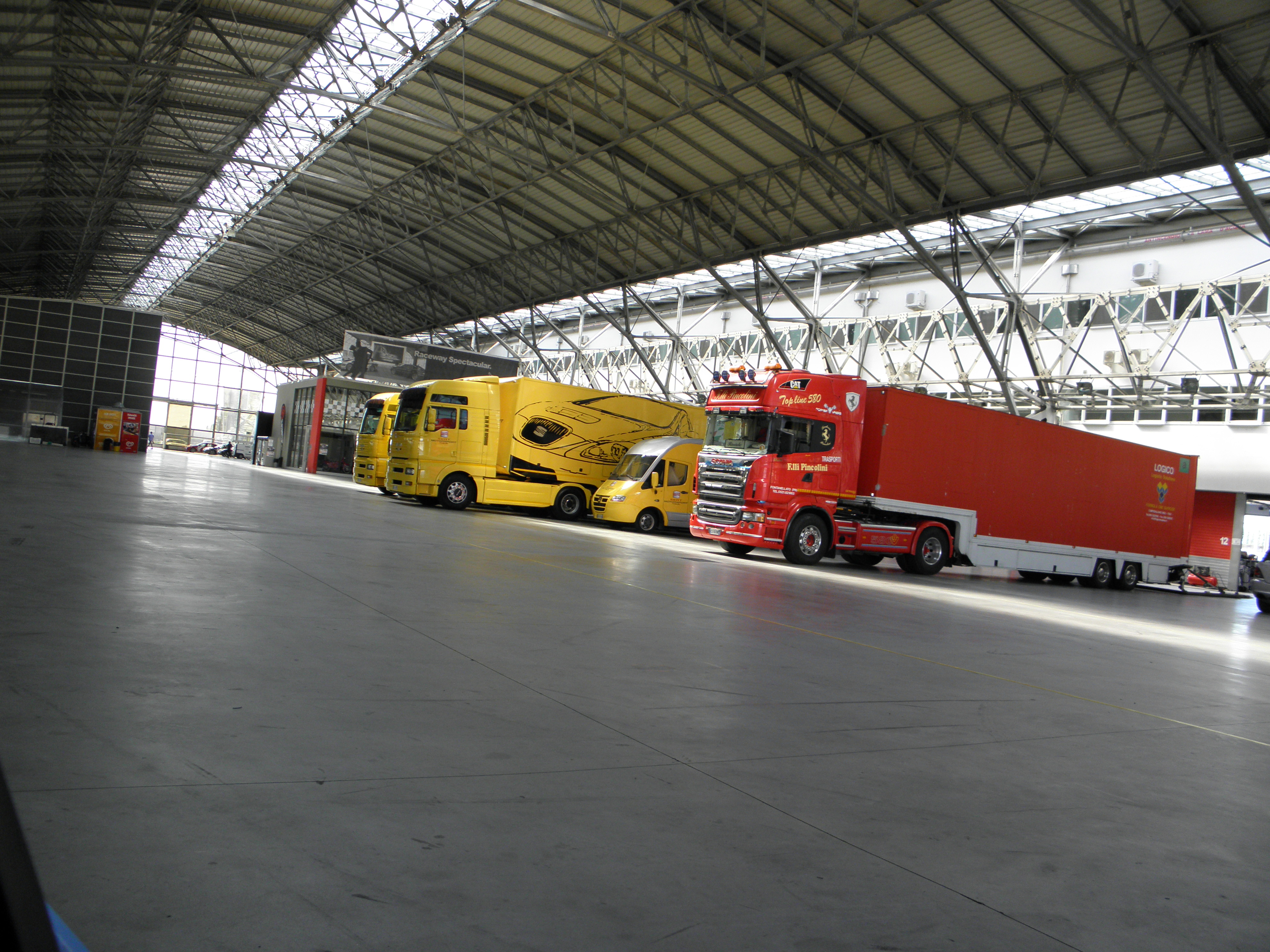 Adria International Raceway, paddock.